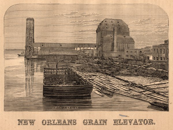 Grain elevator, New Orleans